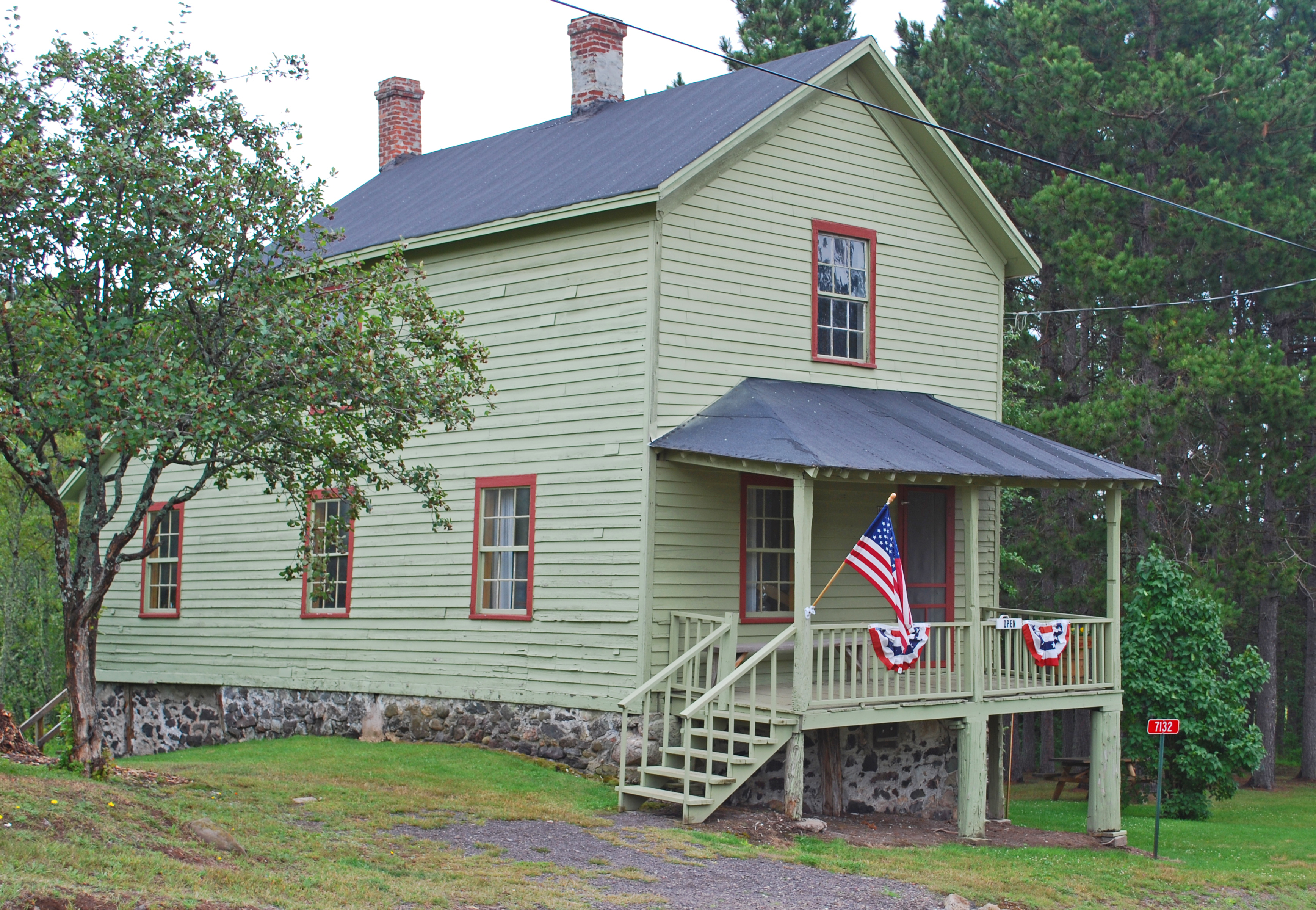 Central Mine Historic District MI Miners Residence